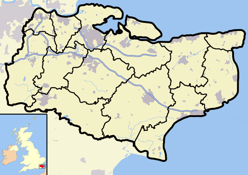 A map of the county of Kent, in England, United Kingdom